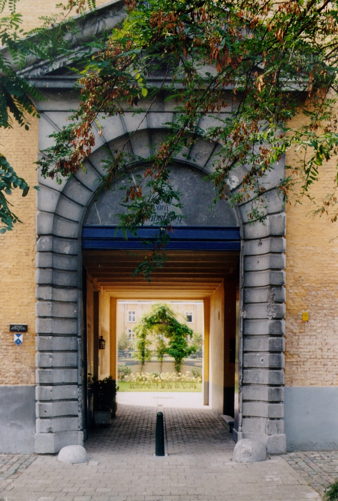 The entrance gate of the Kazerne Dossin.